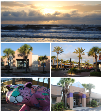 Photo I took around Neptune Beach, Florida